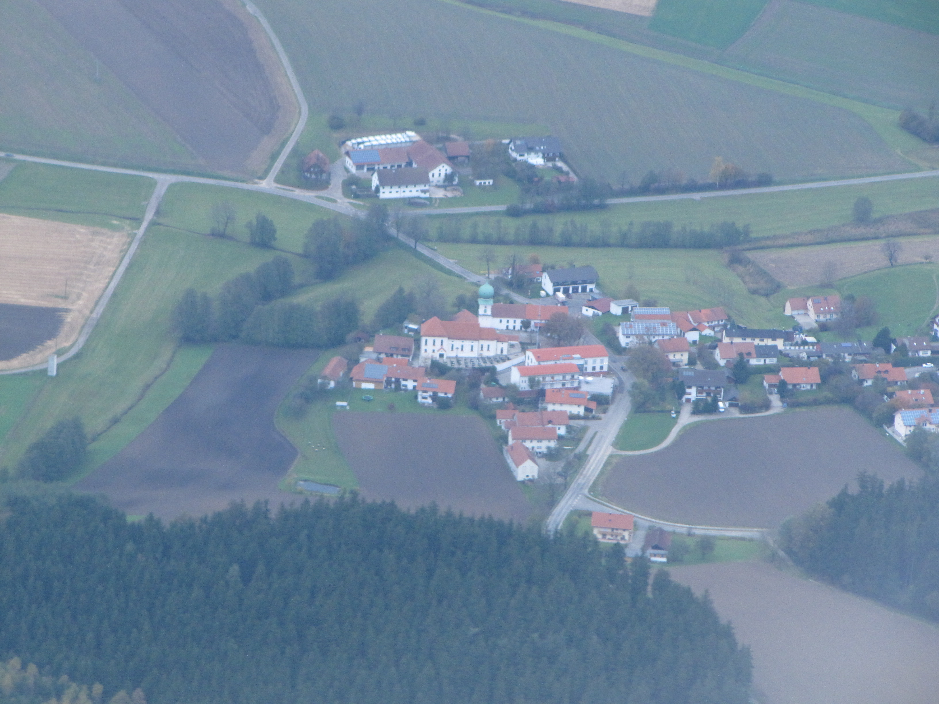 Kirchberg - Schröding